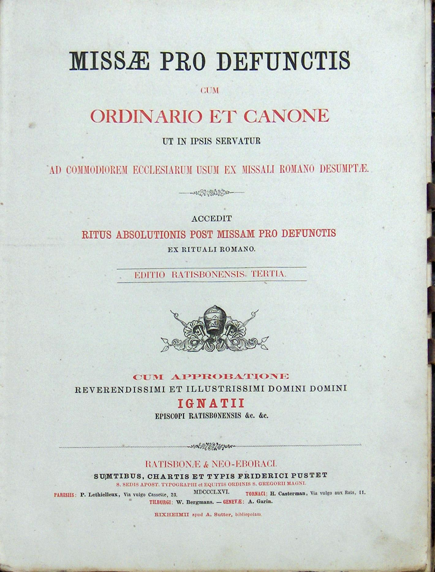 "Missae pro defunctis" (Holy Mass for the death) 1866, as allowed by the bishop of Regensburg (Ratisbona)